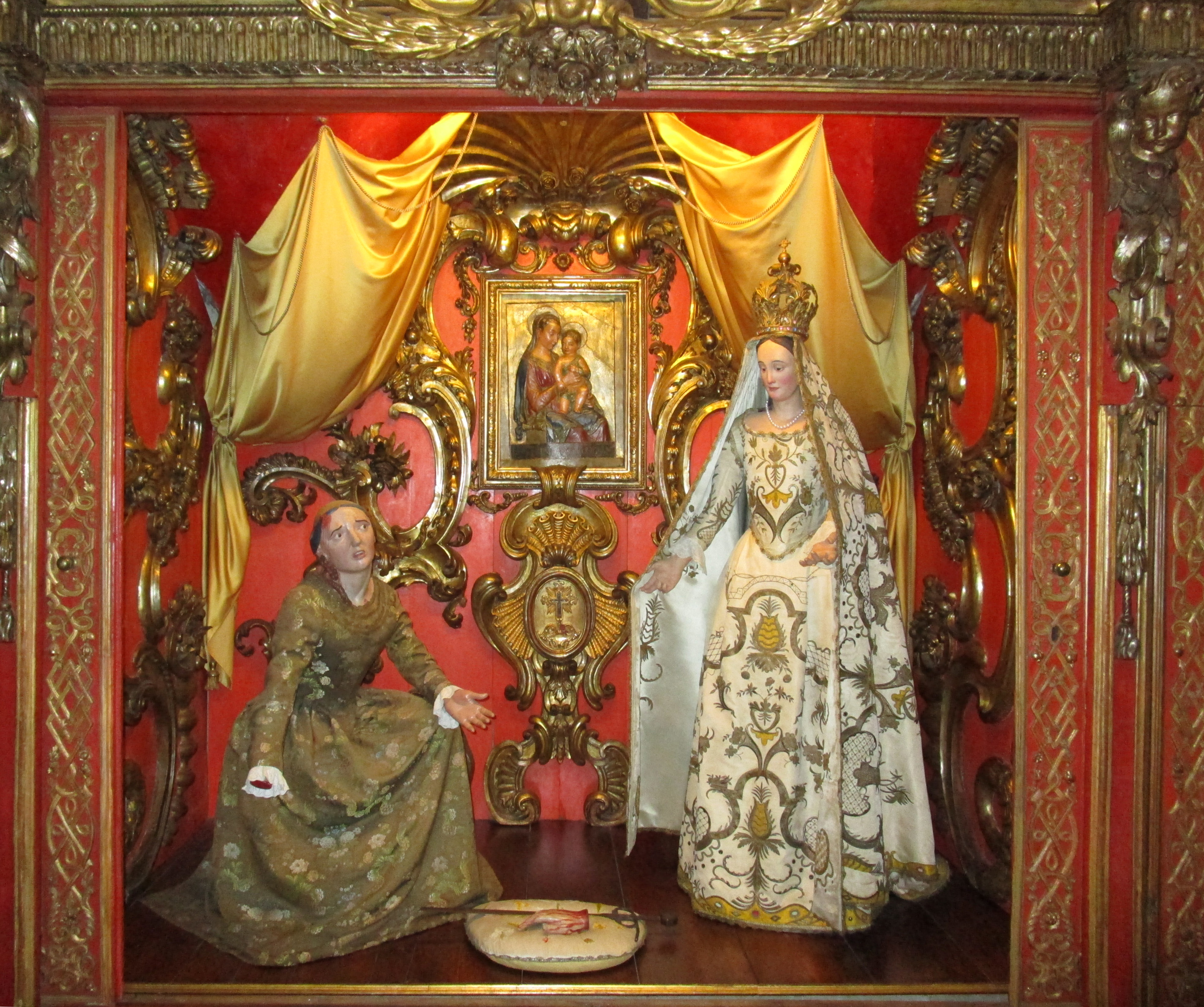 Interior of Sanctuary Santa maria della Croce in Crema, Italy. Caterina meets Our Lady.